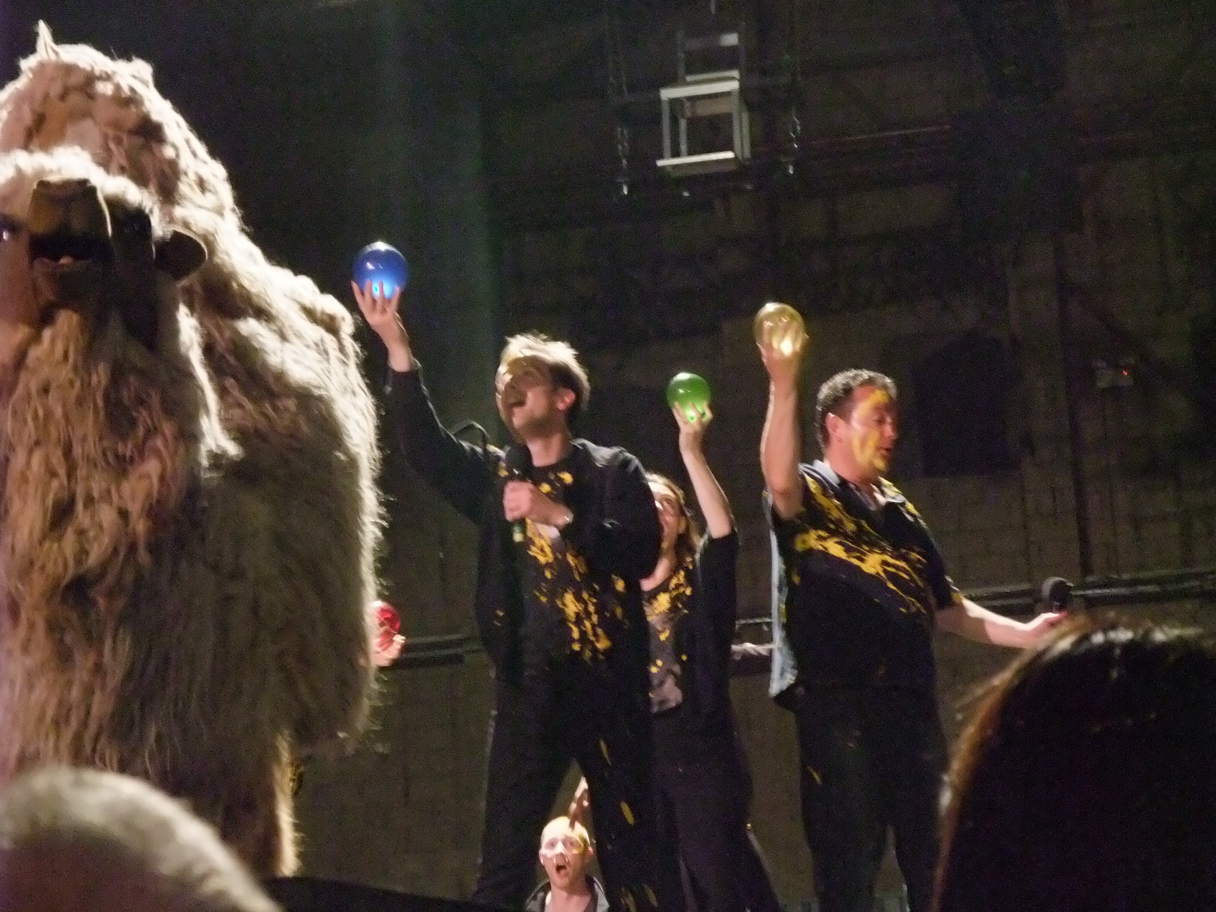 Moments 33–35 ("Kakabel") in scene 4, Michaelion, from Karlheinz Stockhausen's opera Mittwoch aus Licht. Birmingham Opera production, Argyle Works, Digbeth, Birmingham, 24 August 2012. Lucicamel defecates seven different planet globes. The choir members comment on them and hold them up high. Choir: "Kakabel Star of GOD! Cacamel!" Lucicamel and choir: "Bleu for Thursday, Schwarz for Saturday, Grün for Eve-Moon's-day, Rouge for, for Tiusday, Orange for Friday, Yellow for Wednesday, Goldy for Souldy". Samuel Queen (bass), Eleanor Meynell (soprano), Andrew Walters (tenor). Photograph by Jerome Kohl.